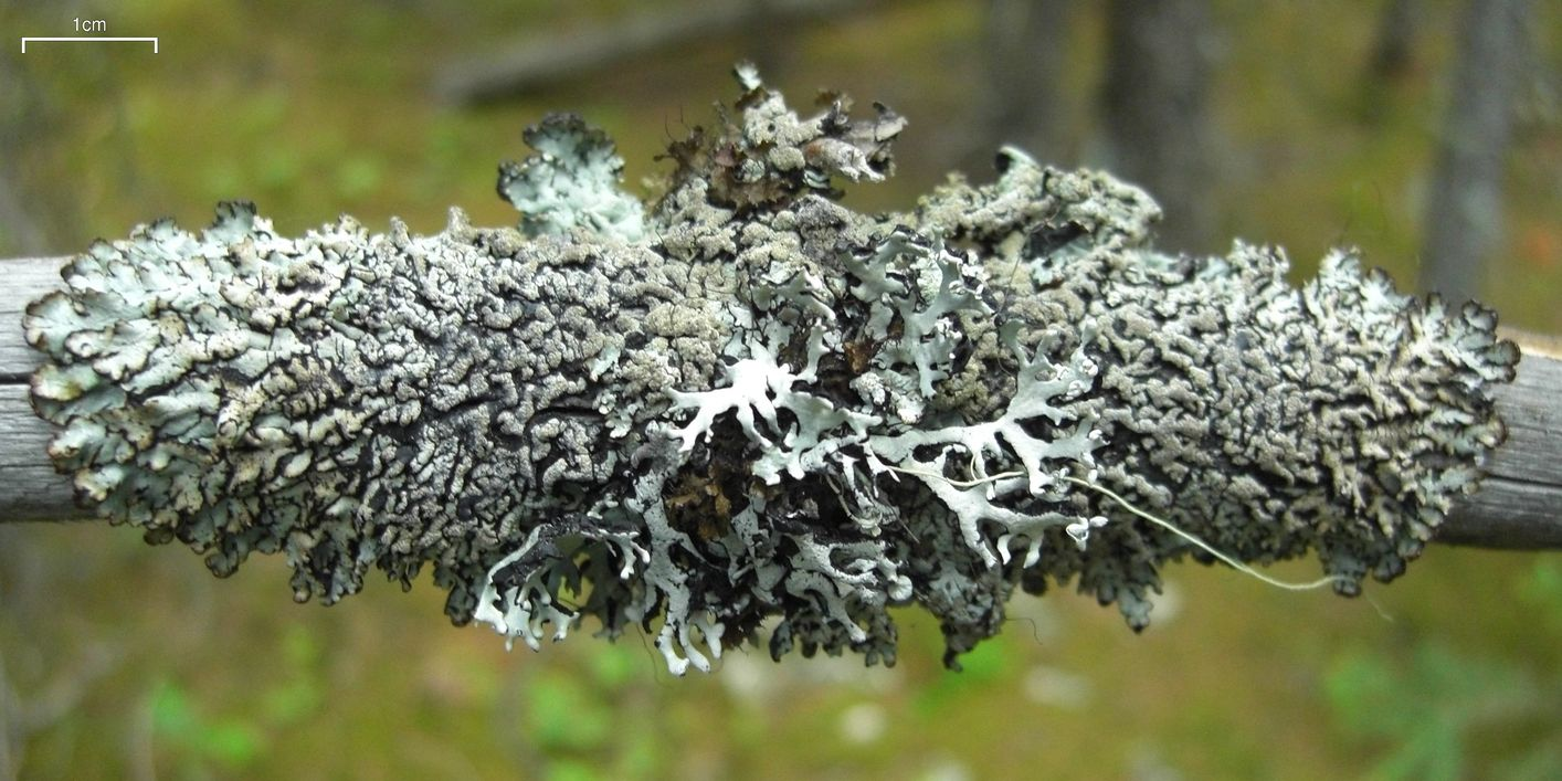 Hypogymnia austerodes group 20090623 (photo #37) near Grande Cache, Alberta